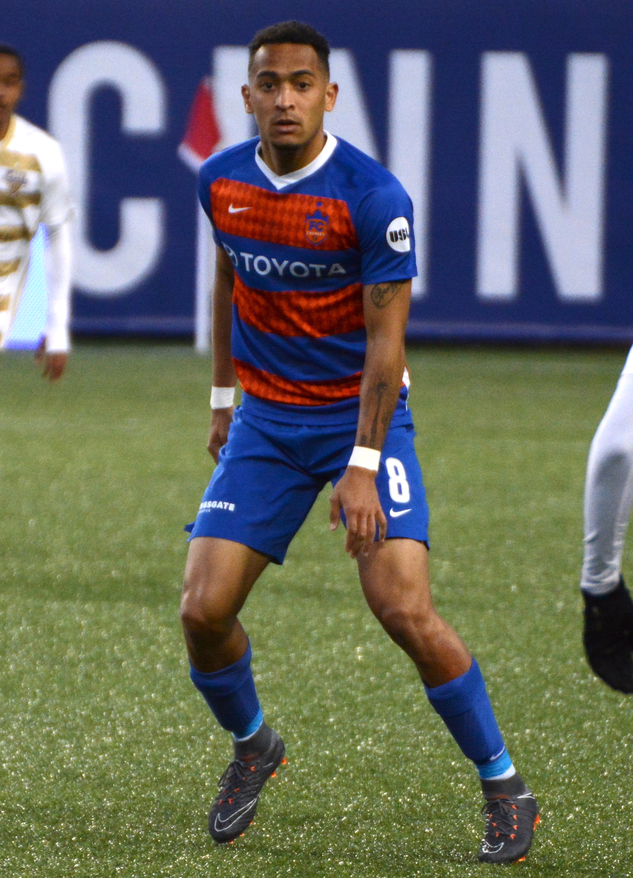 Taken during FC Cincinnati's home opener against Louisville City FC at Nippert Stadium in Cincinnati, USA on April 7, 2018.